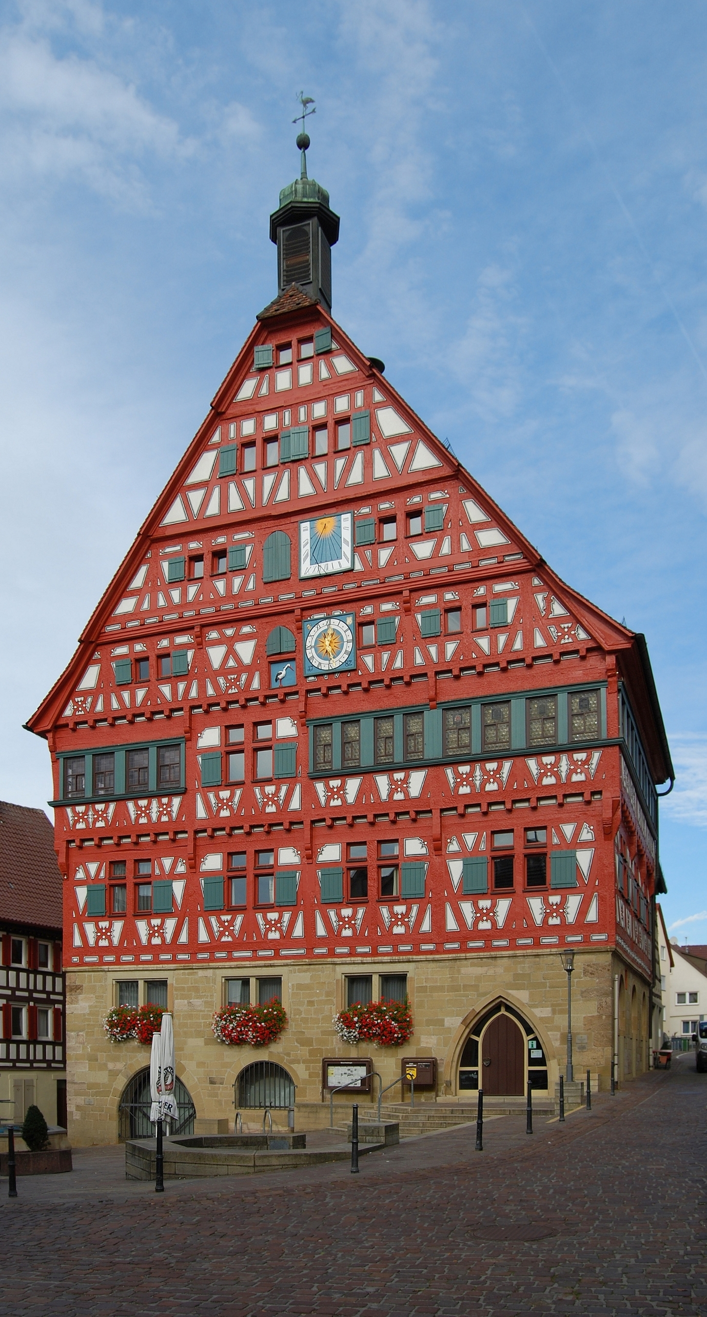 The town hall of Großbottwar, Baden-Württemberg.